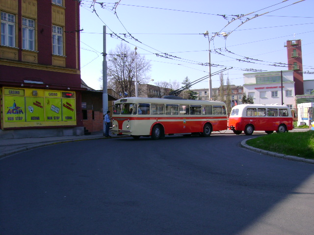 Trolleybus Škoda 8Tr No. 29 (32) with trailer Karosa B40 No. 141 in Ostrava (Czech Republic)